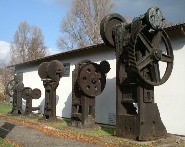 Poland, Ustron - museum of steelworks.